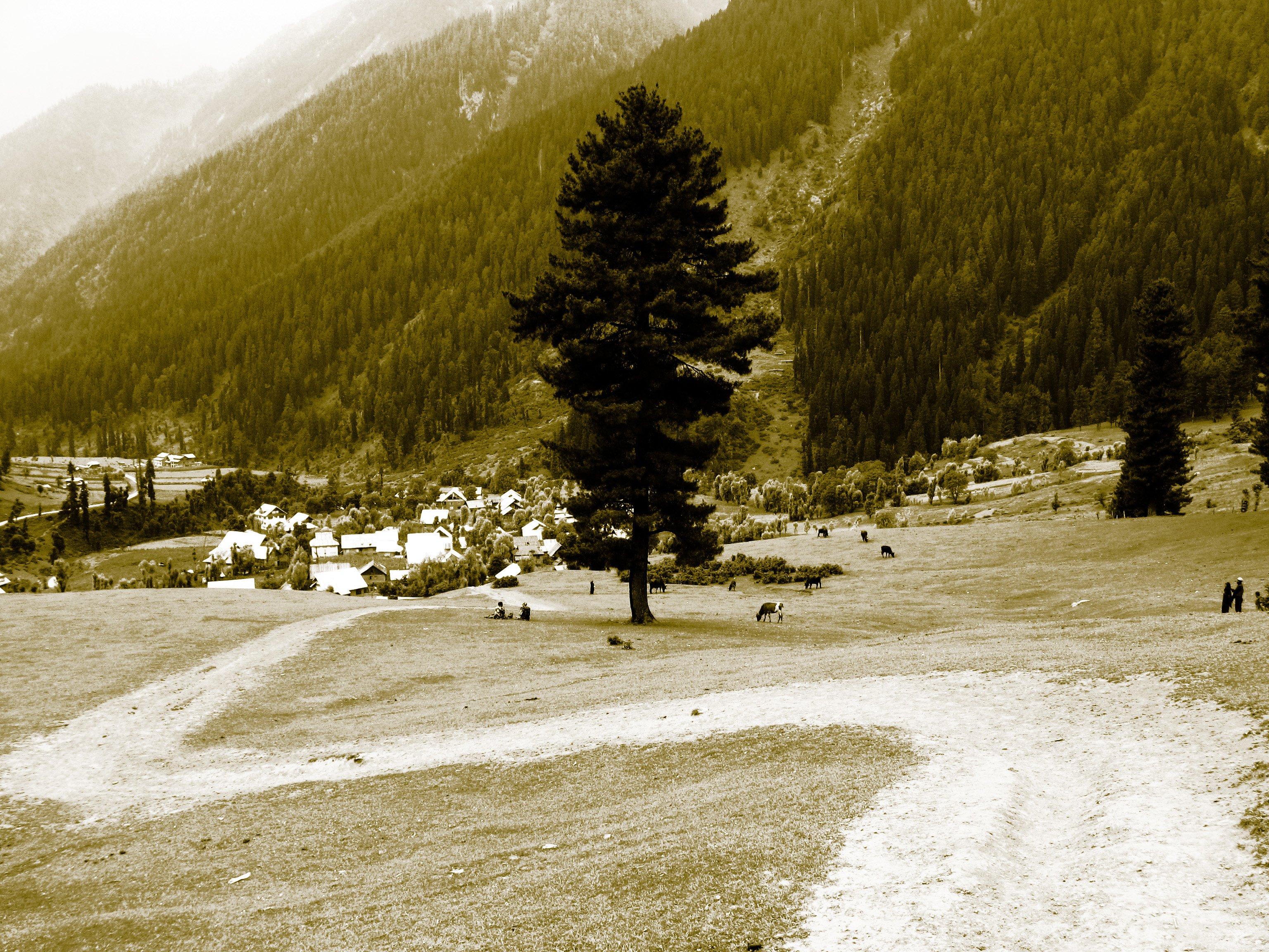 Landscape at Aru Valley near Pahalgam, J&K, India